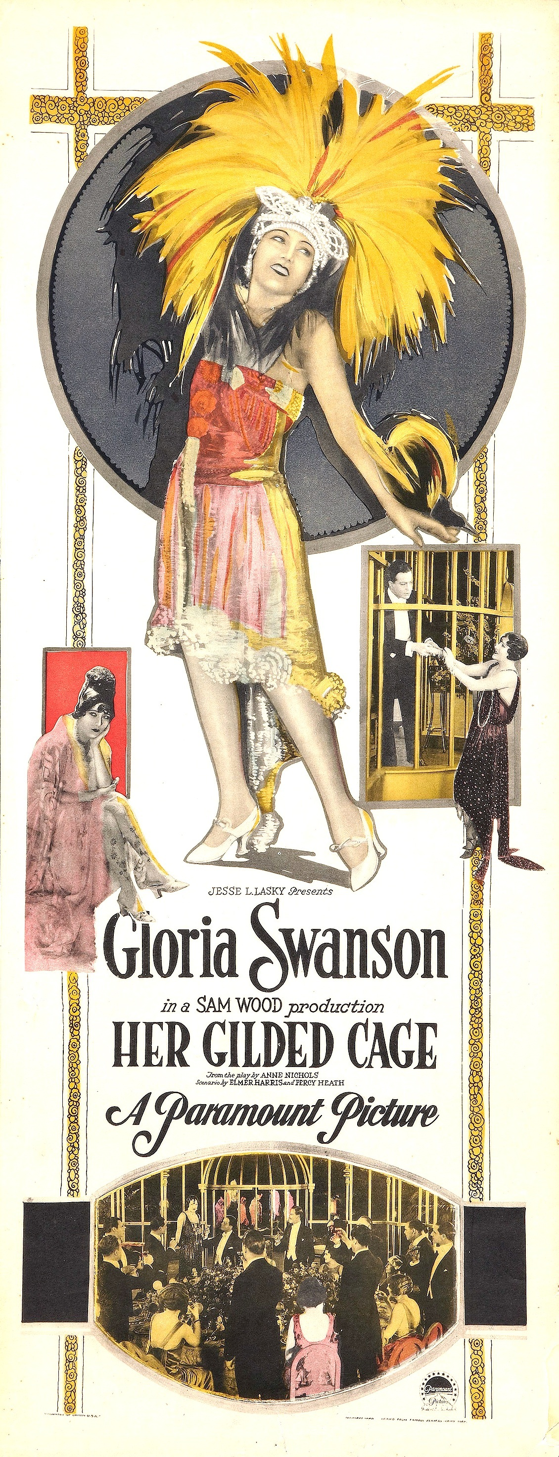 Movie poster of Her Gilded Cage